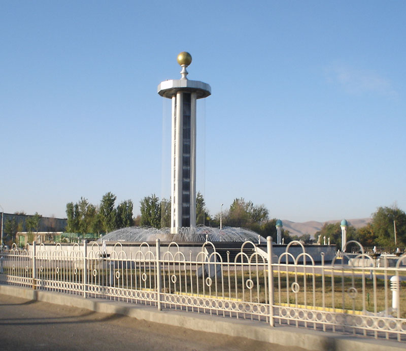 Large fountain in the center of Jizzax, Uzbekistan